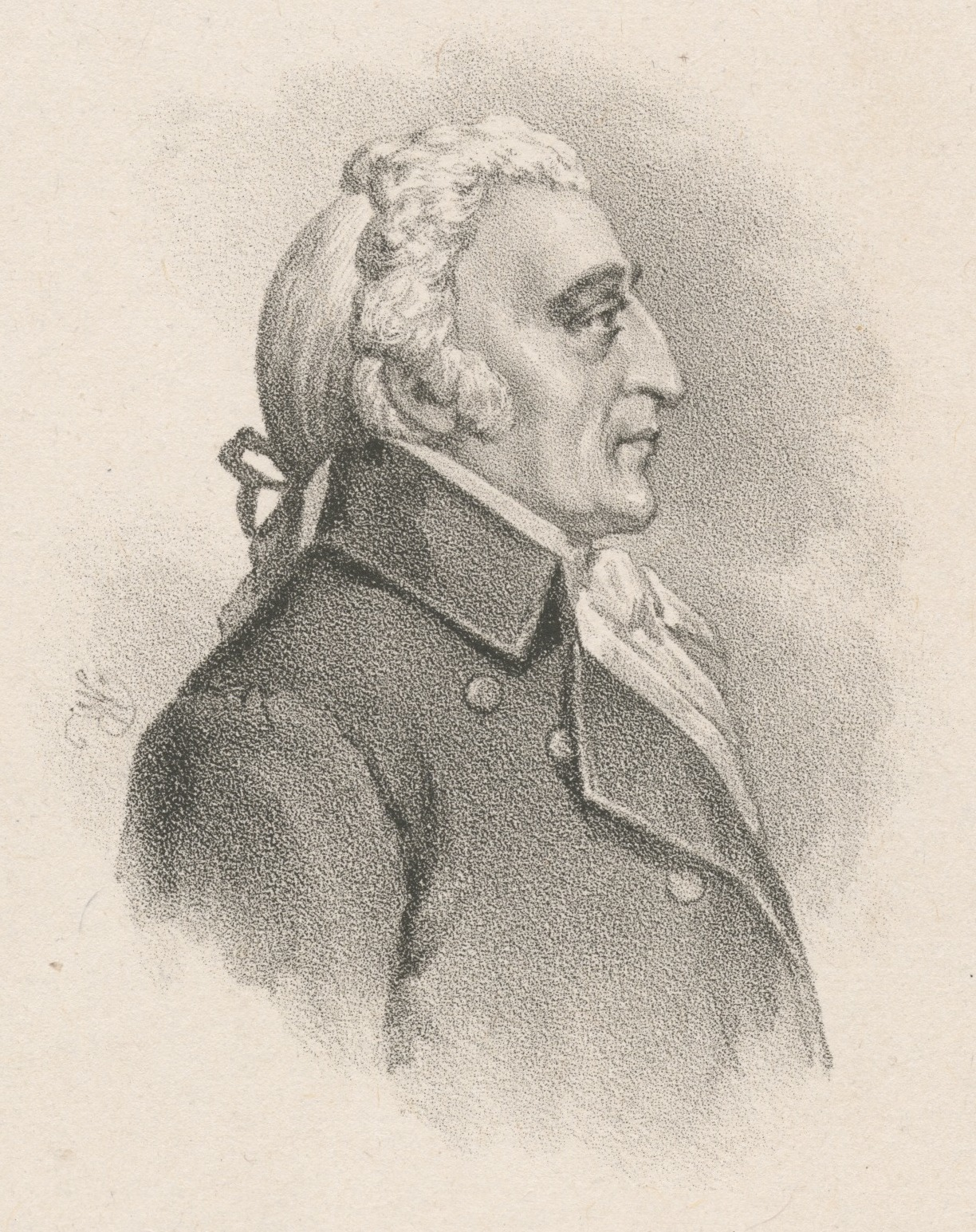 EM2386